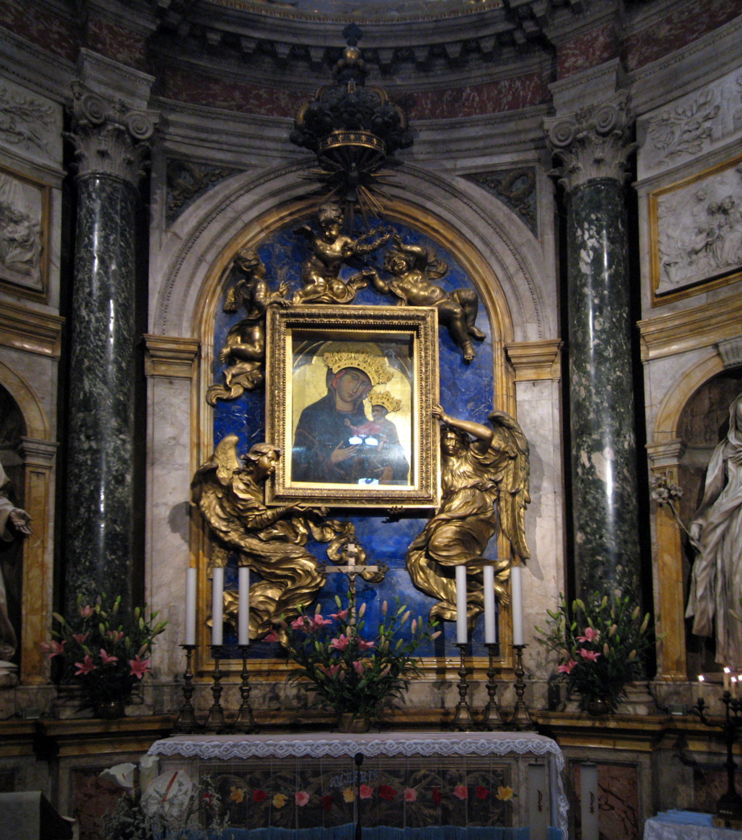 Side chapel with Madonna inside Siena Cathedral